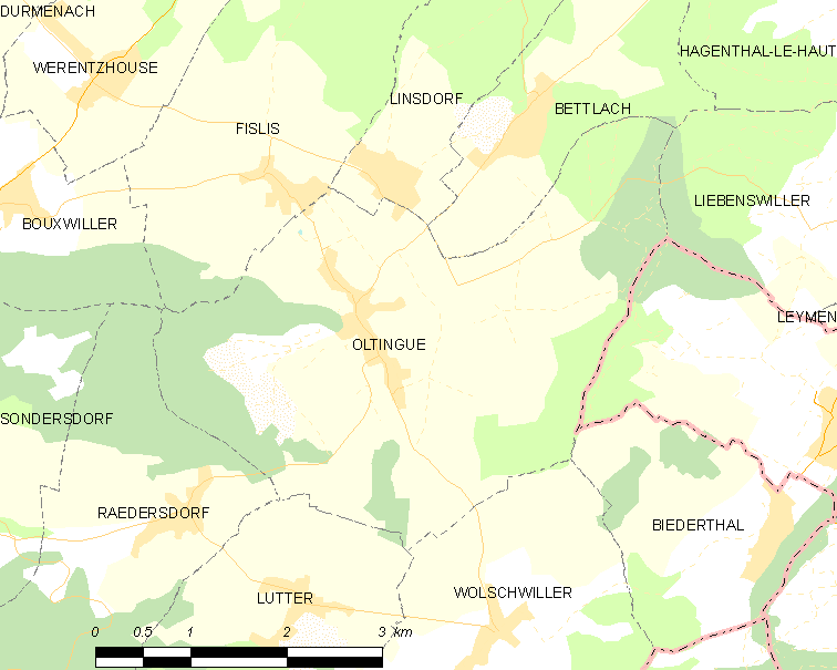 Map of French municipality